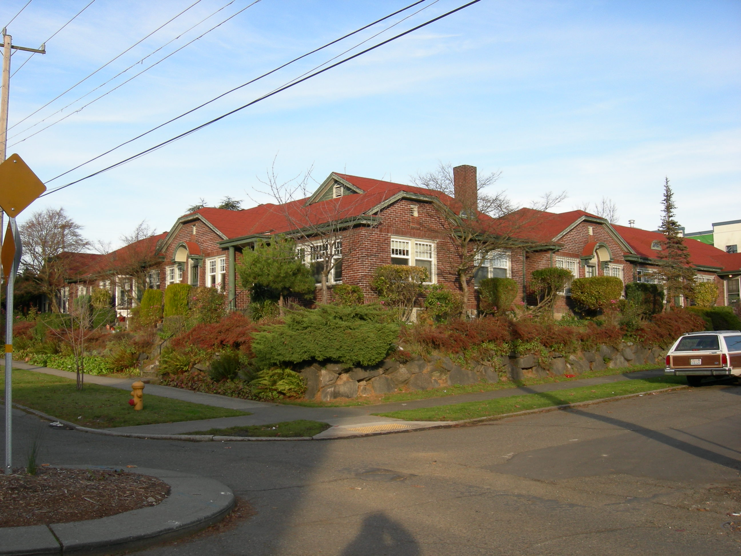 Garden apartments, Squire Park, Seattle, Washington at the corner of 18th Avenue and Spruce Street.